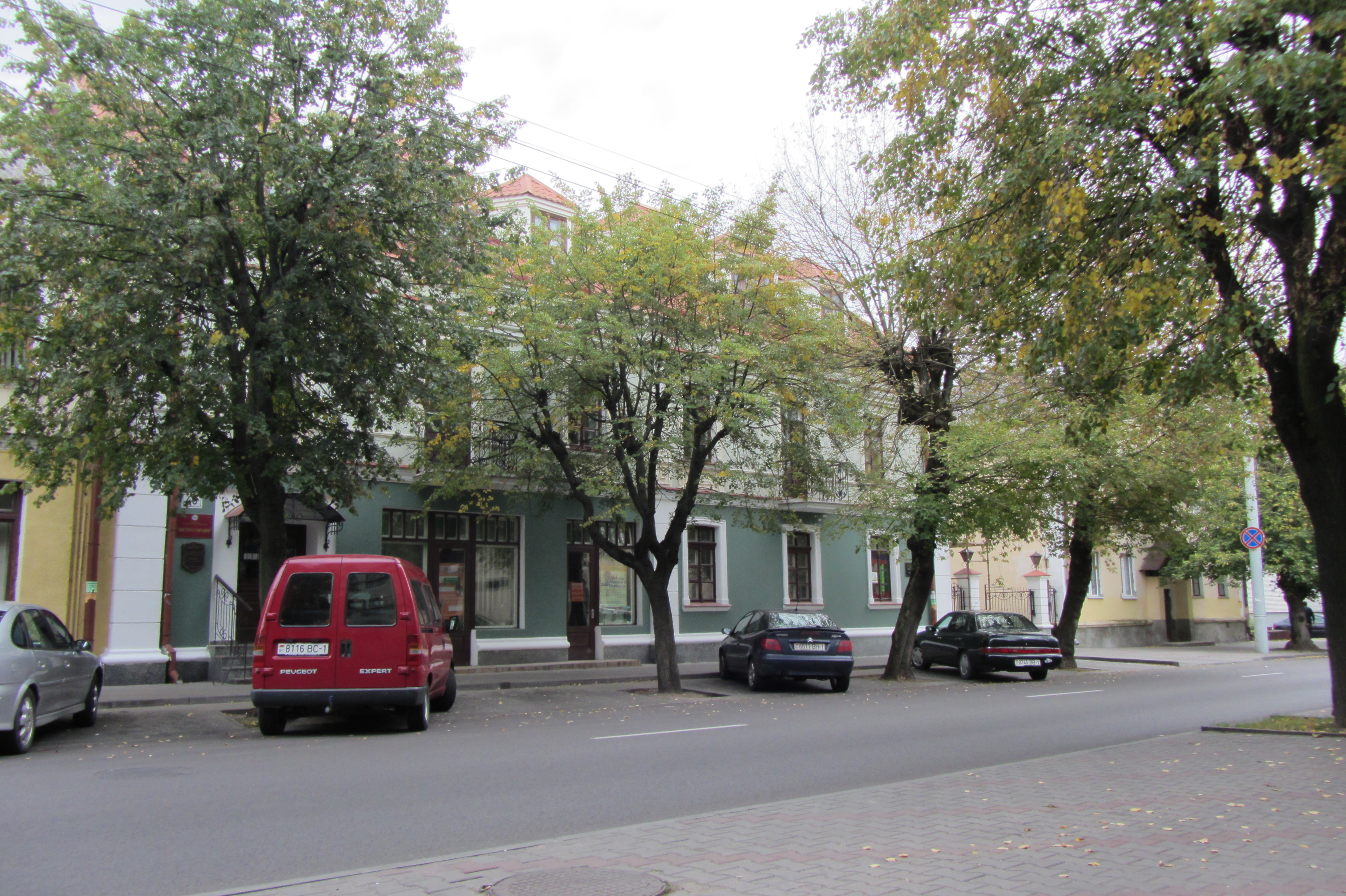 a house in Brest, Belarus, built in 19th centuryБеларуская (тарашкевіца): Будынак. г. Берасьце This is a photo of Belarusian heritage monument. Reference number: 113Г000011 ( WLM)